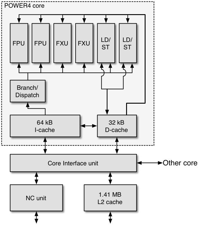 Schematic of one of the POWER4 cores